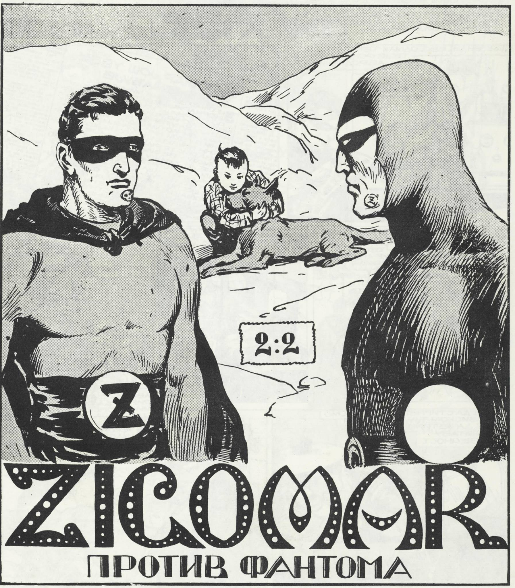 navoev